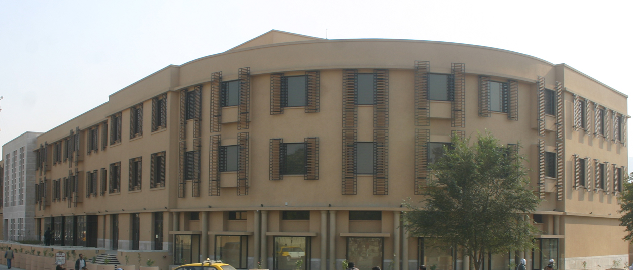 Kabul Serena Hotel, innugurated in November, 2005 is the most modern hotel in Afghanistan.